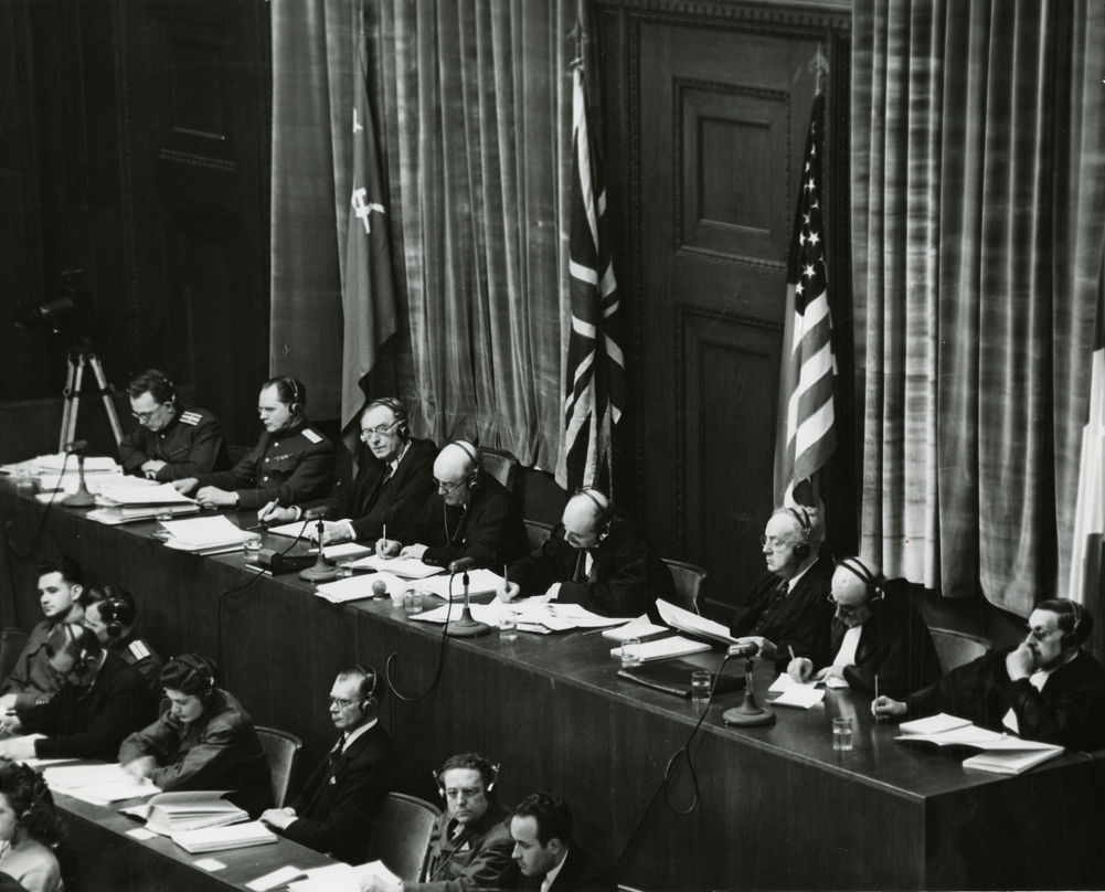 View of the judges' panel during testimony at the Nuremberg Trials, Nuremberg, Germany. Gelatin silver process on paper. 28 cm x 35.3 cm. Image courtesy of the Harvard University Law School Library, Harvard University, Cambridge, Mass.